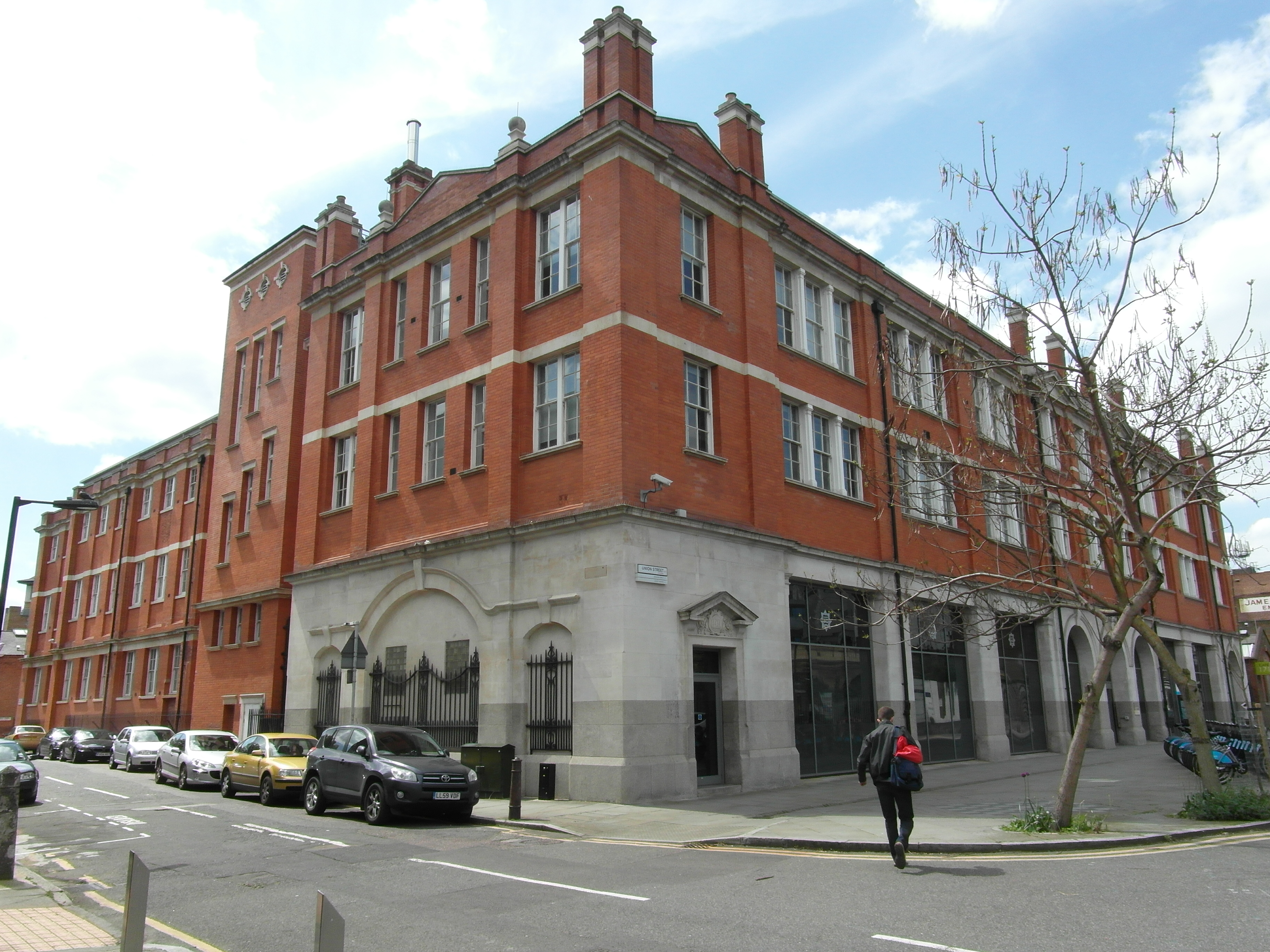 London Fire Brigade headquarters, at 169 Union Street.